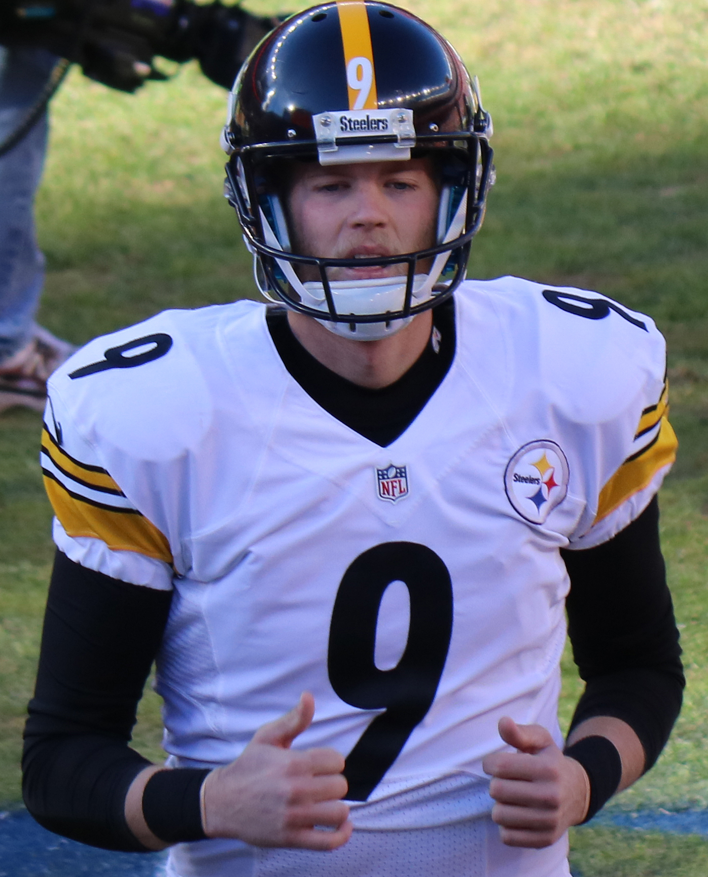 Chris Boswell, a player on the National Football League.